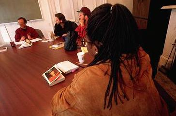 Discussion class at Shimer College, Waukegan, IL, circa 1995. Facilitated by John R. Wikse (left). This was a class in the Weekend Program (est. 1982), which chiefly served adult students. The text under discussion (visible on the table) was the revised Penguin edition of the Pensées by Blaise Pascal, translated by A. J. Krailsheimer.